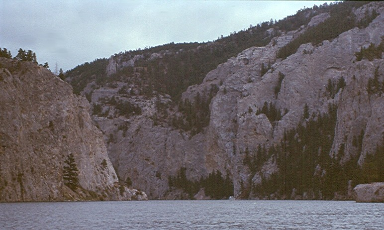 Outcrops of massive Madison Limestone flank the Missouri River in the Gates of the Mountains (canyon). Within the Gates of the Mountains Wilderness Area, Helena National Forest, Lewis and Clark County, Montana. Credits Photo by Richard I. Gibson, 2003.